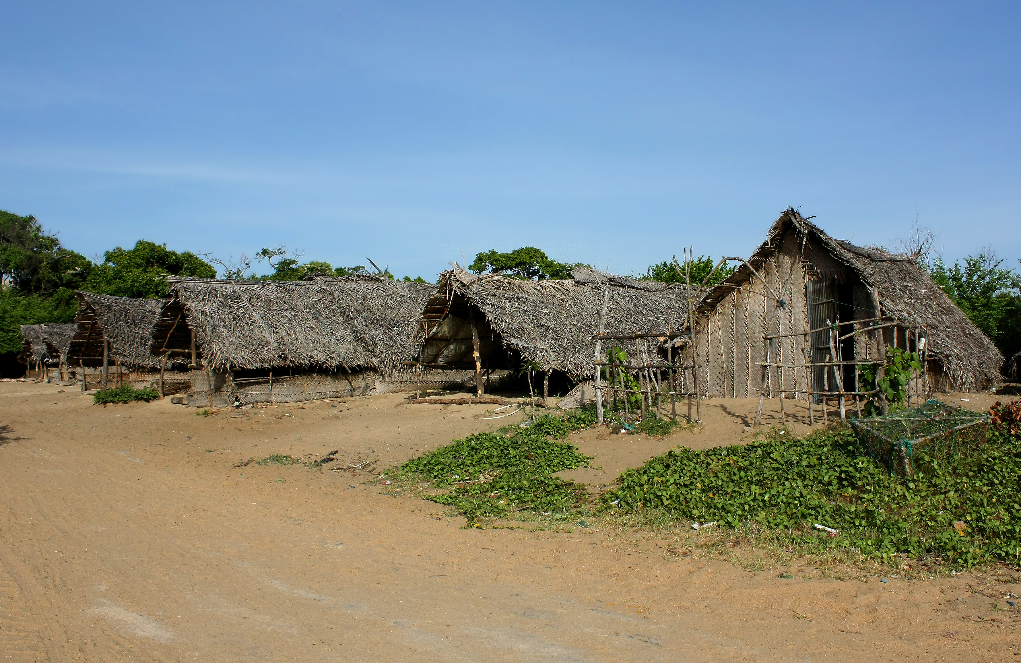 Fishermen's hut in Okanda (Ampara district), Sri Lanka